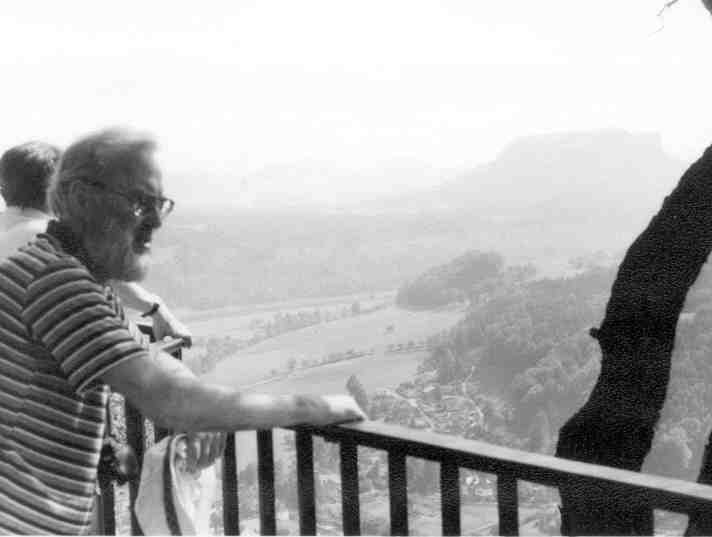 John Roycroft in the Elbsandsteingebirge (Saxony). The photo was shot during a trip of the participants of a chess course held 1988 in Dresden.